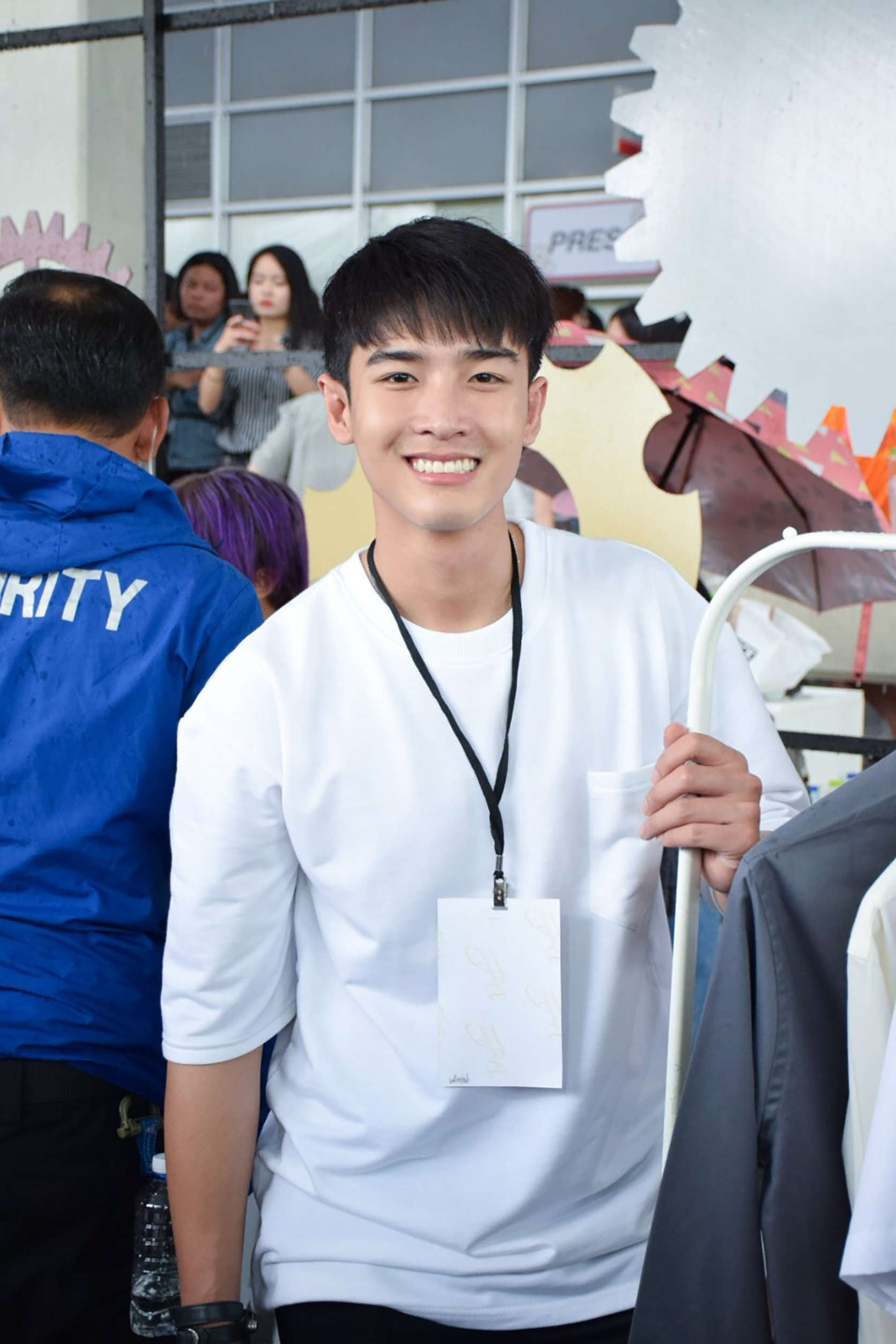 Plustor Pronpipat